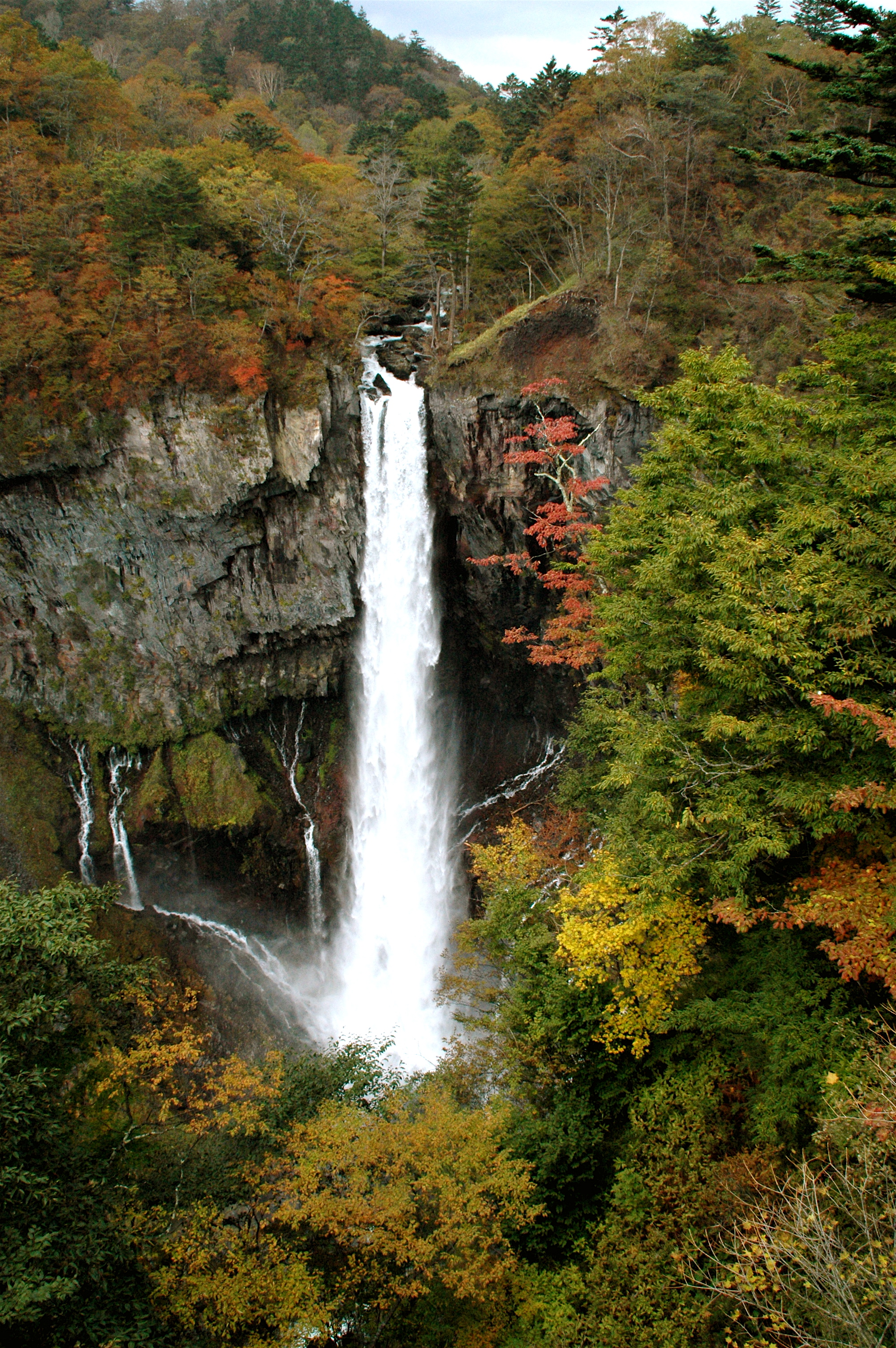 華厳の滝 , 日本三大名瀑 華厳の滝。 上の観瀑台から。 Nikko